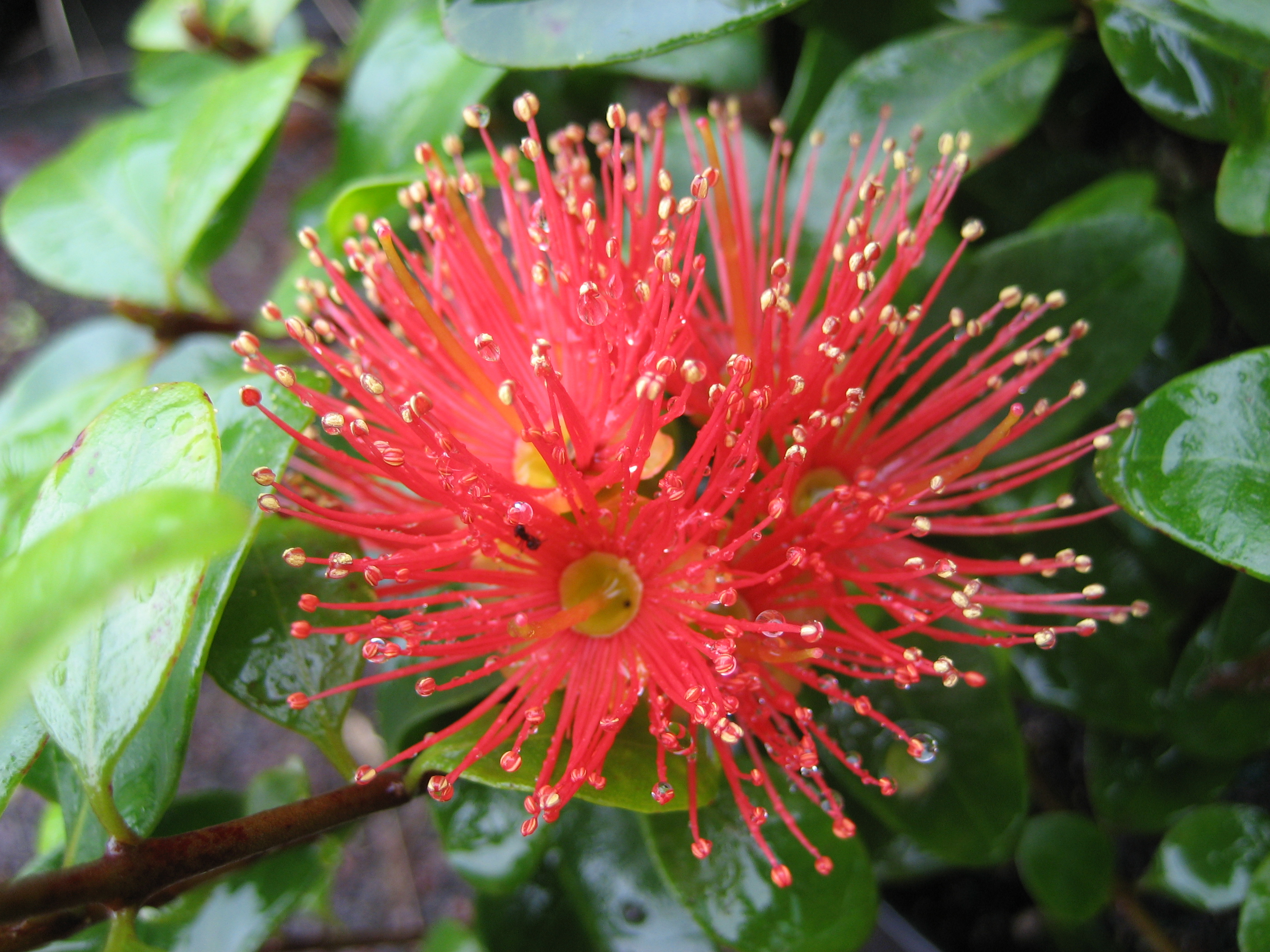 Flower of Metrosideros fulgens, (Climbing scarlet rātā or Akakura) Myrtaceae, endemic to New Zealand.